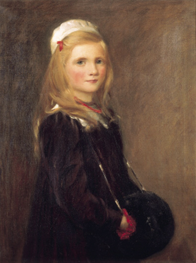 Portrait of Elsie May Marquis holding a muff. Oil on canvas. 72.4 x 55.8cm